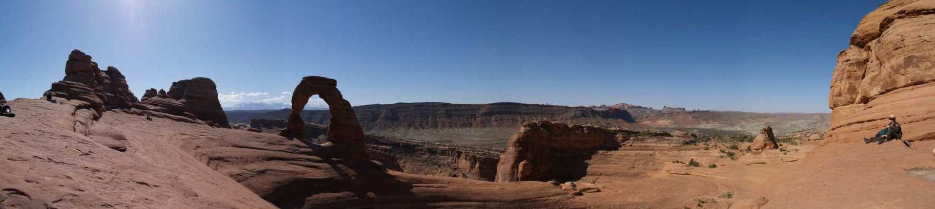 Delicate Arch